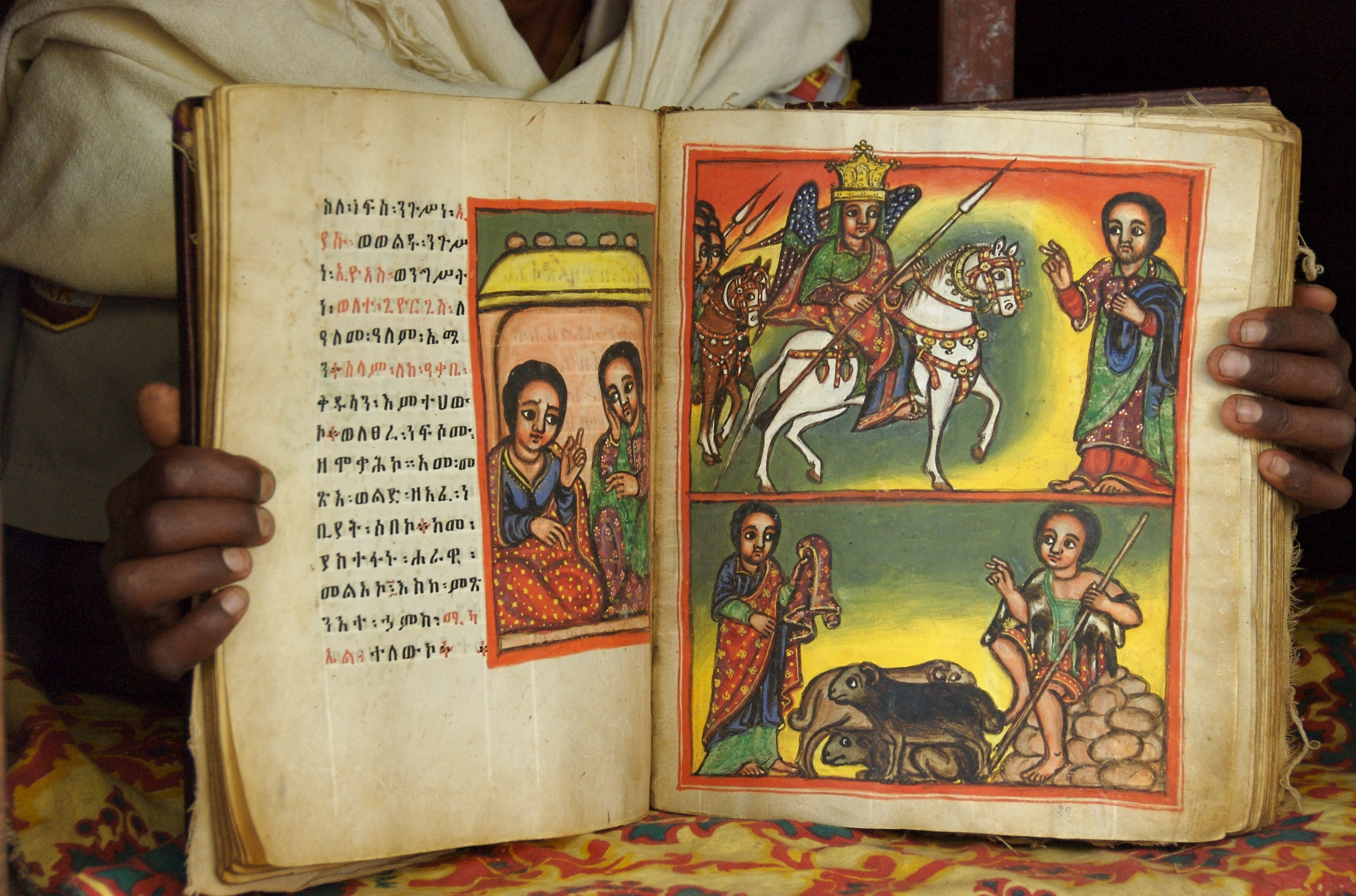 From the treasury of the Church of Narga Selassie, Dek Island, Lake Tana, Ethiopia.